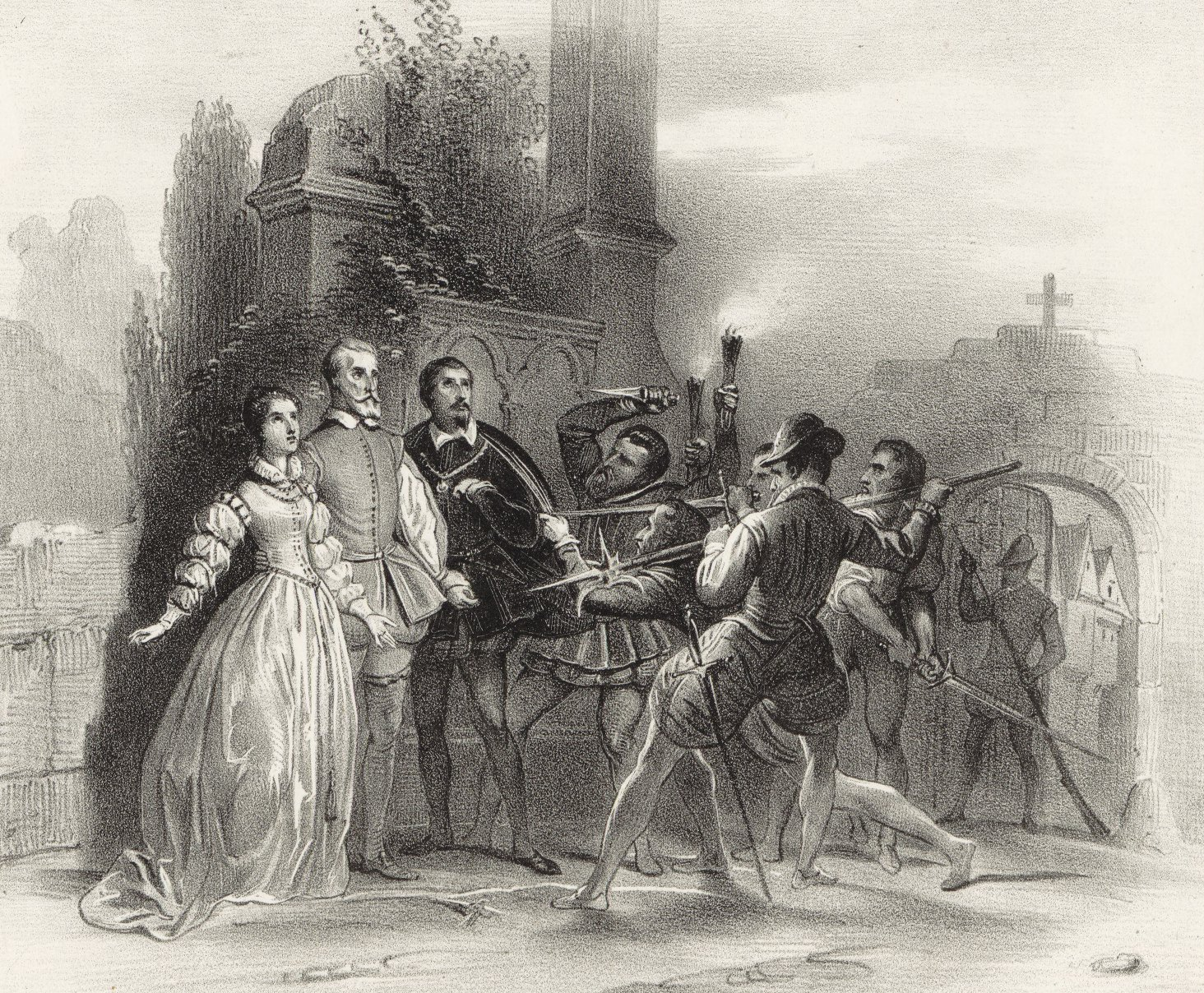 Les Huguenots: Act V scene 2